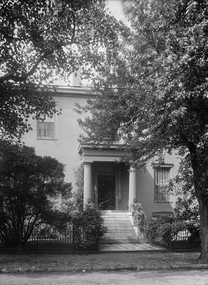 Ellen Glasgow House ("Branch-Glasgow House") 1 West Main Street (Richmond, Virginia) (cropped)